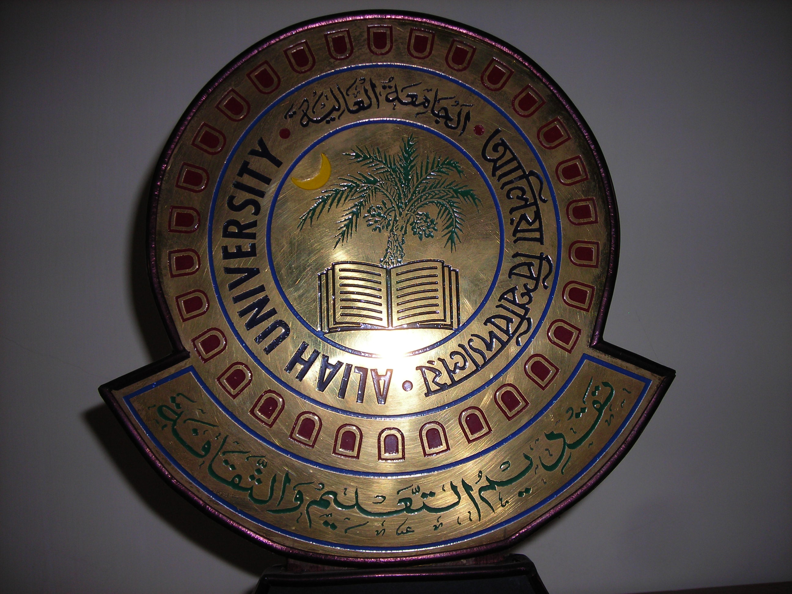 Coats Of Arms Of ALIAH UNIVERSITY.